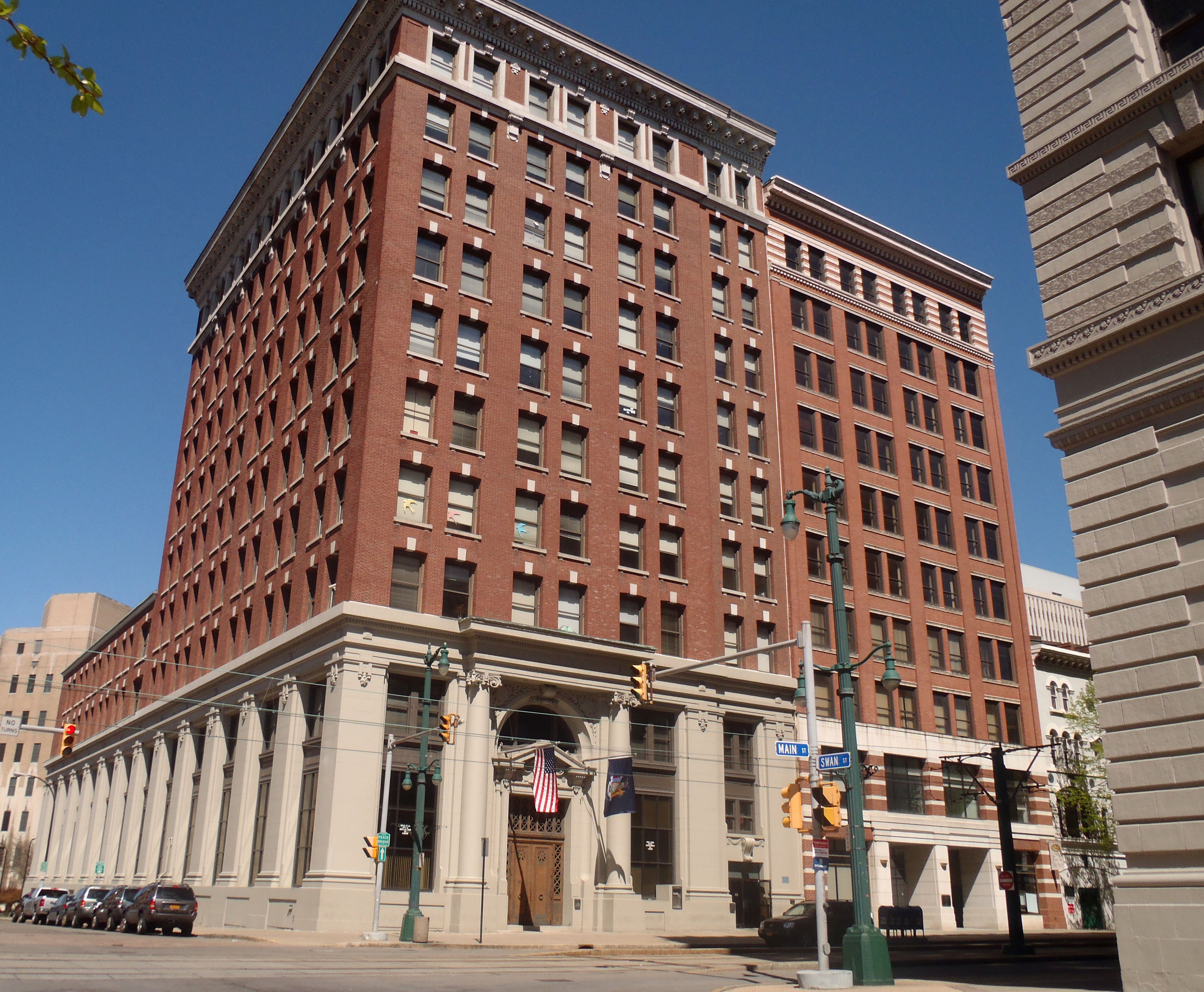 Swan Tower / Fidelity Trust Bank Building, 284 Main Street, Buffalo, NY